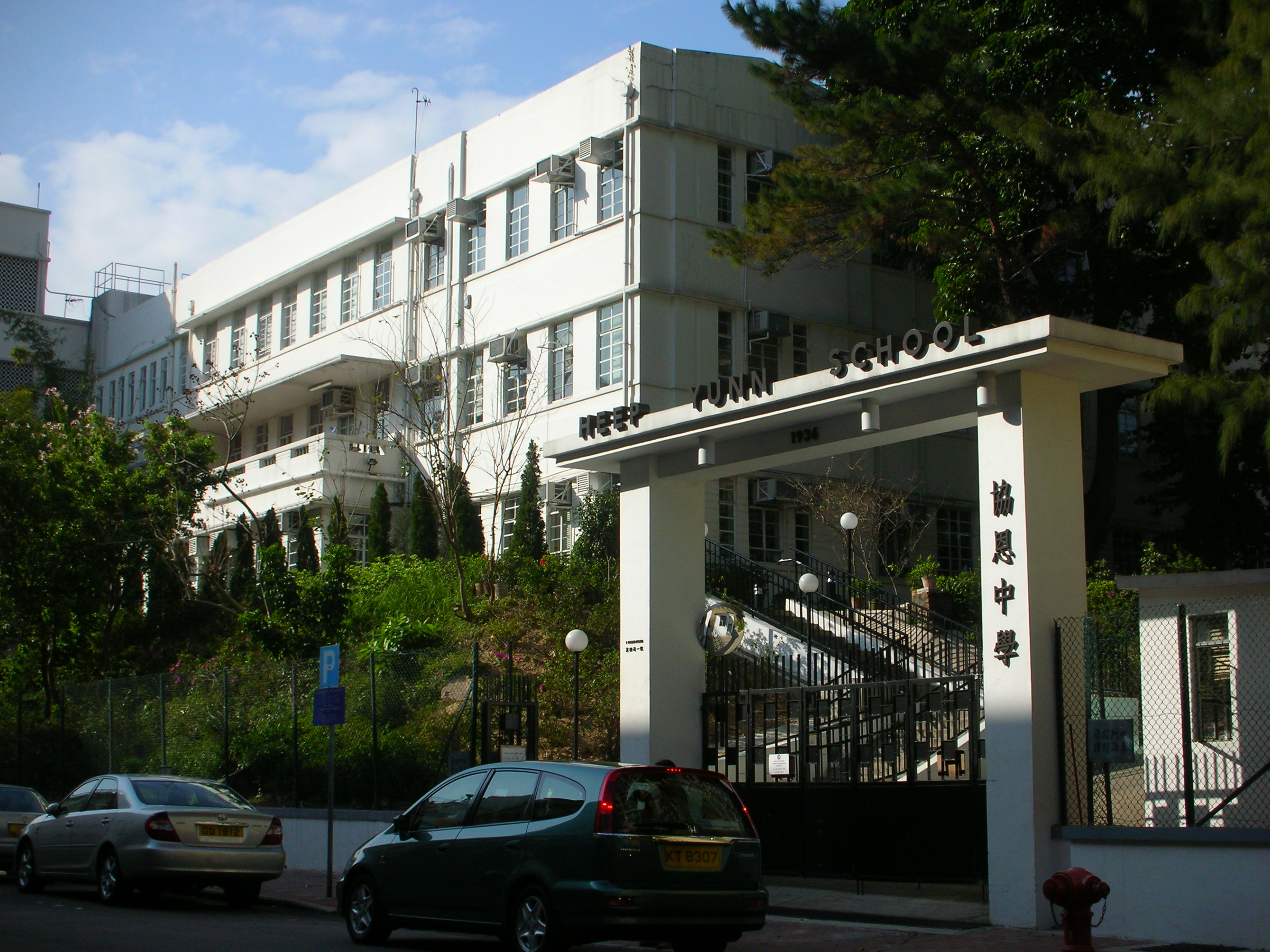 Heep Yunn School, To Kwa Wan, Hong Kong 協恩中學，位於香港zh:土瓜灣。